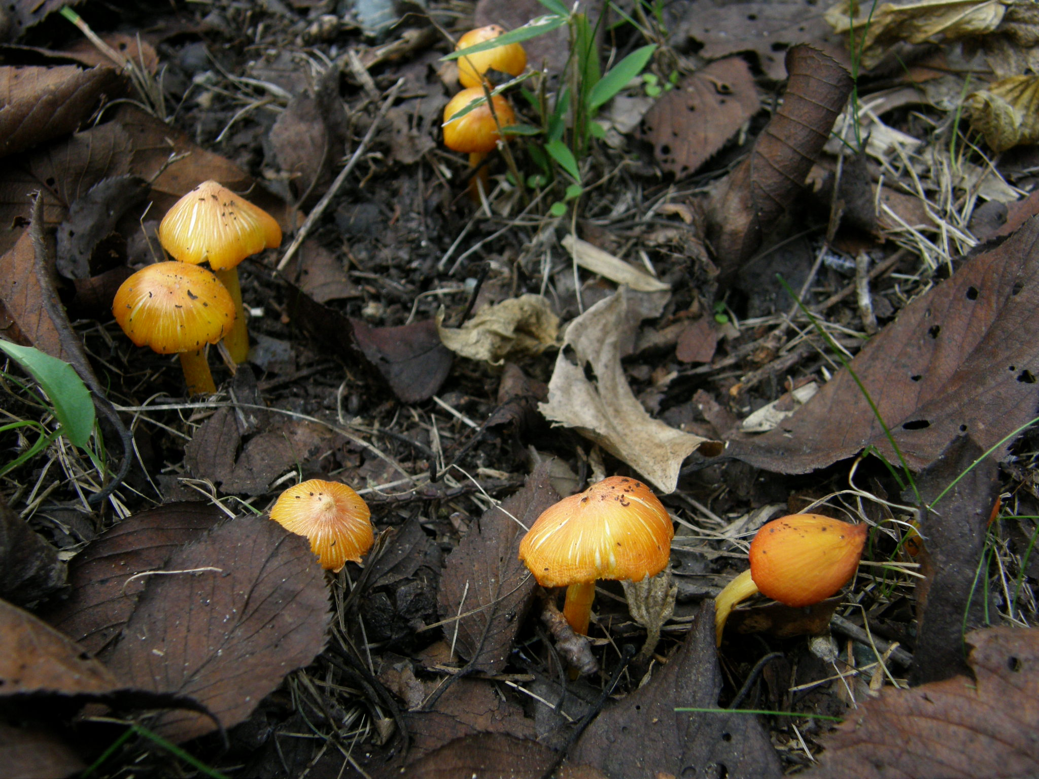 Hygrocybe flavescens